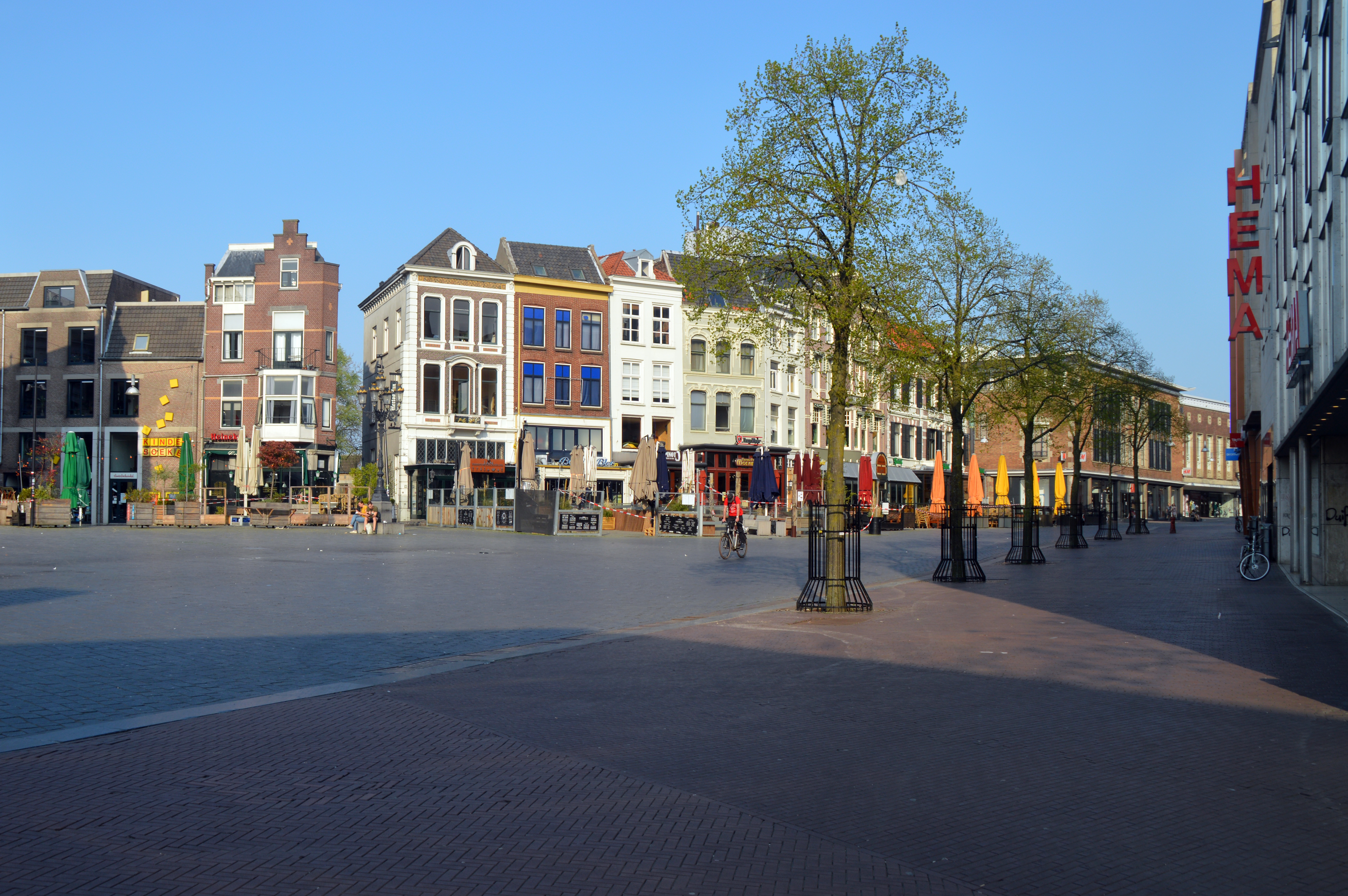 Grote Markt, Grote Markt, Kruismarkt. Nijmegen, Terraces. View towards Burchtstraat